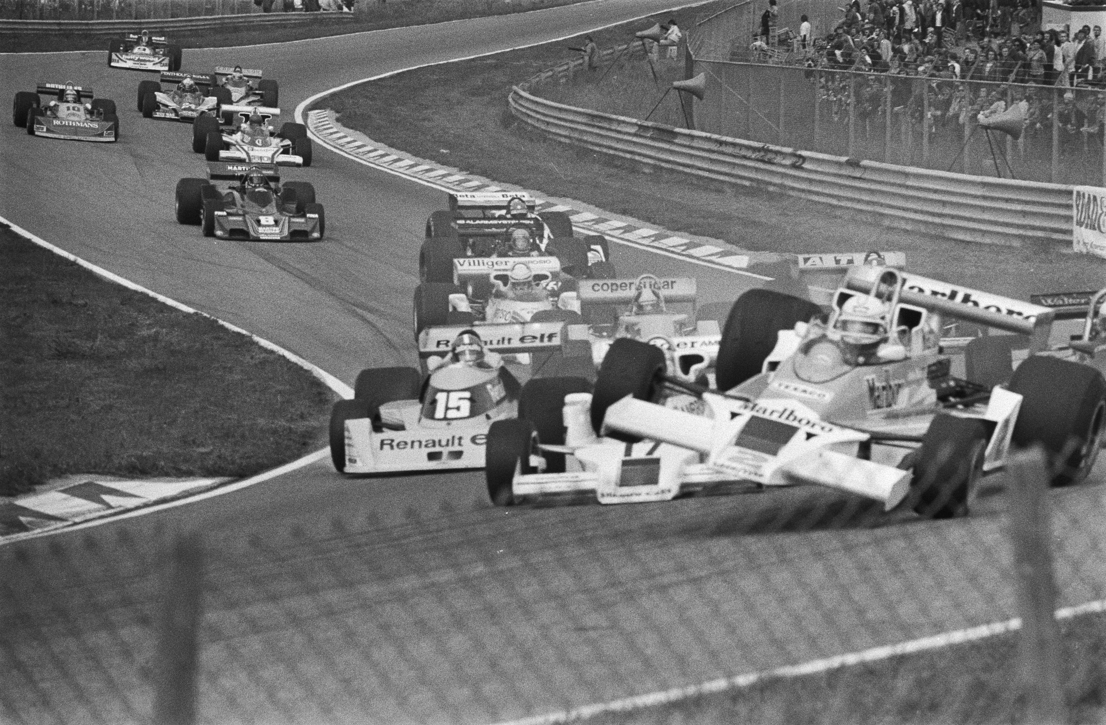 1977 Dutch Grand Prix, Zandvoort. Crash between Australian Alan Jones (no. 17) and German Jochen Mass (no. 2) at the very early stages of the race. At the far left French driver Jean-Pierre Jabouille (no. 15) who didn't take advantage from the crash because he was forced by a mechanic failure to withdraw from the race some laps later